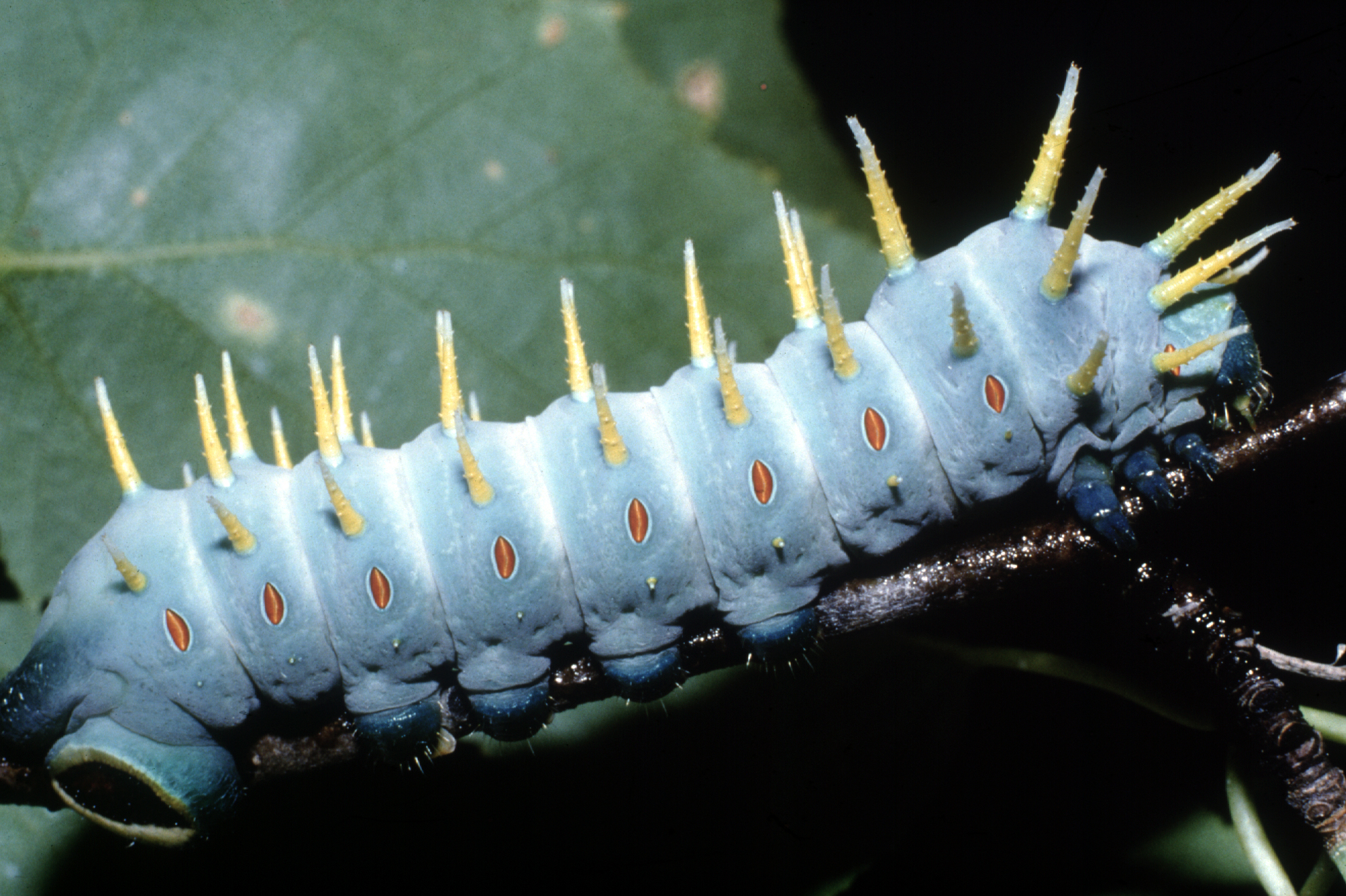 A member of the family Saturnidae. Common name: Hercules moth larva